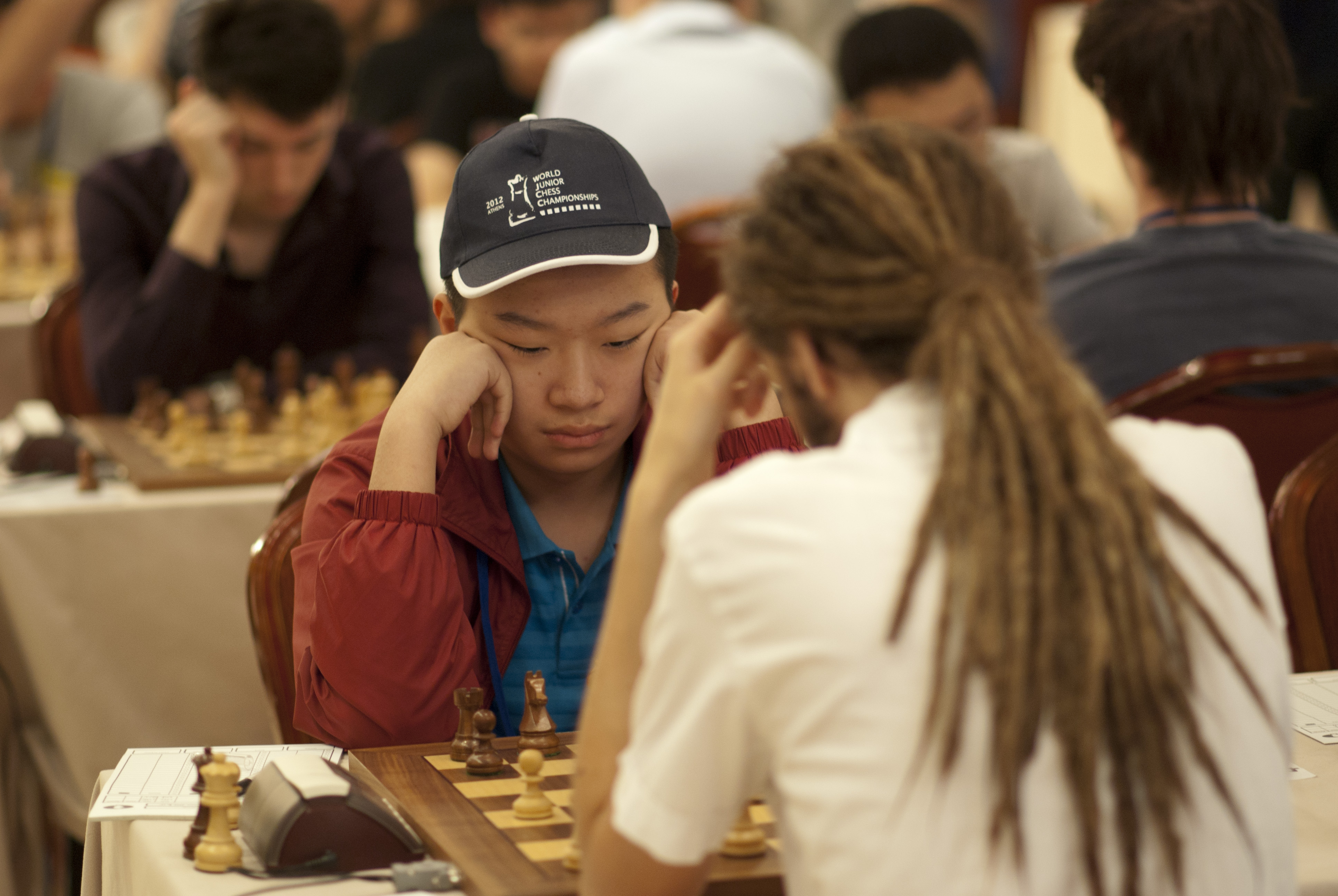 Wei Yi, WChJ Athens 2012.